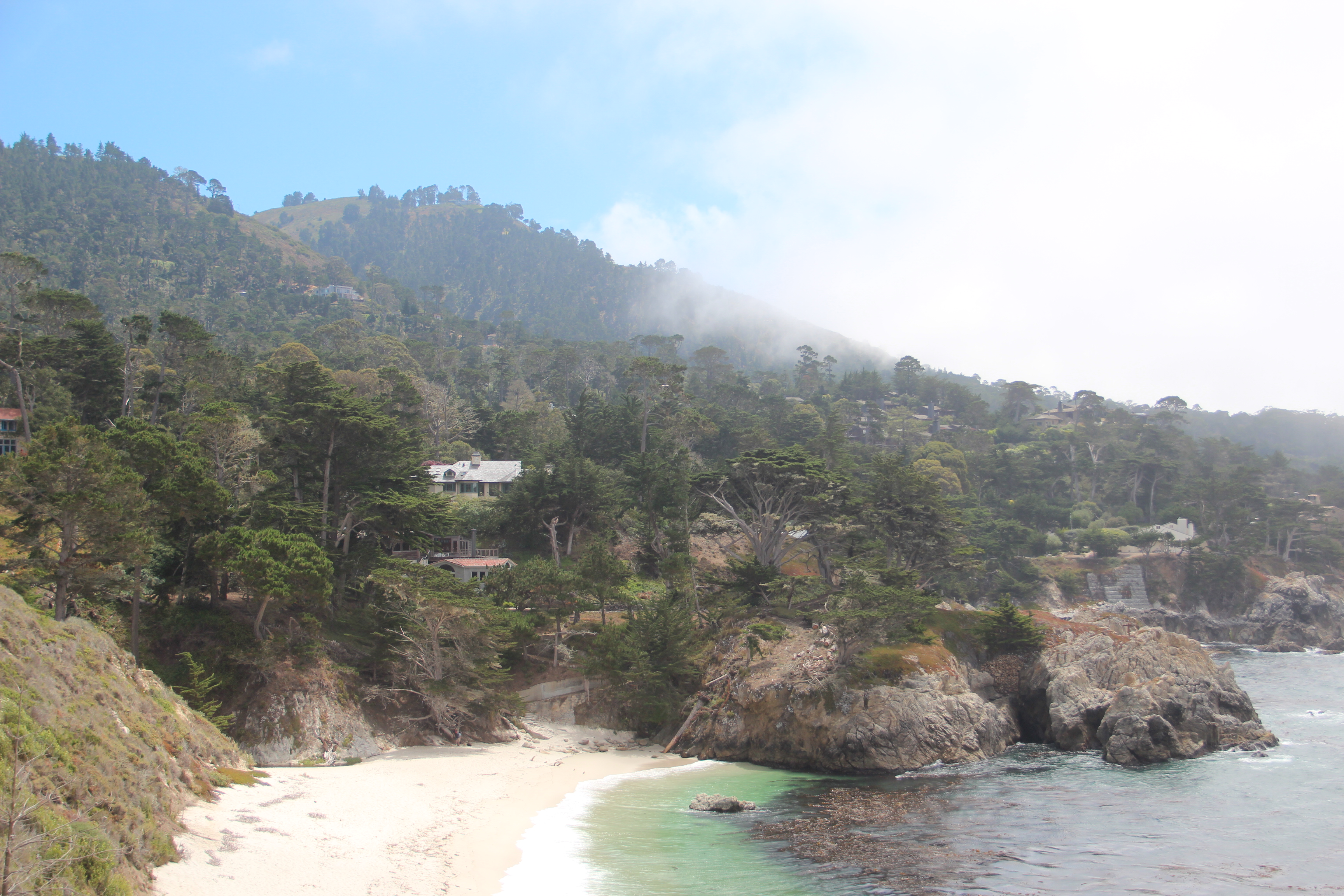 Carmel Highlands, California viewed from Gibson Beach